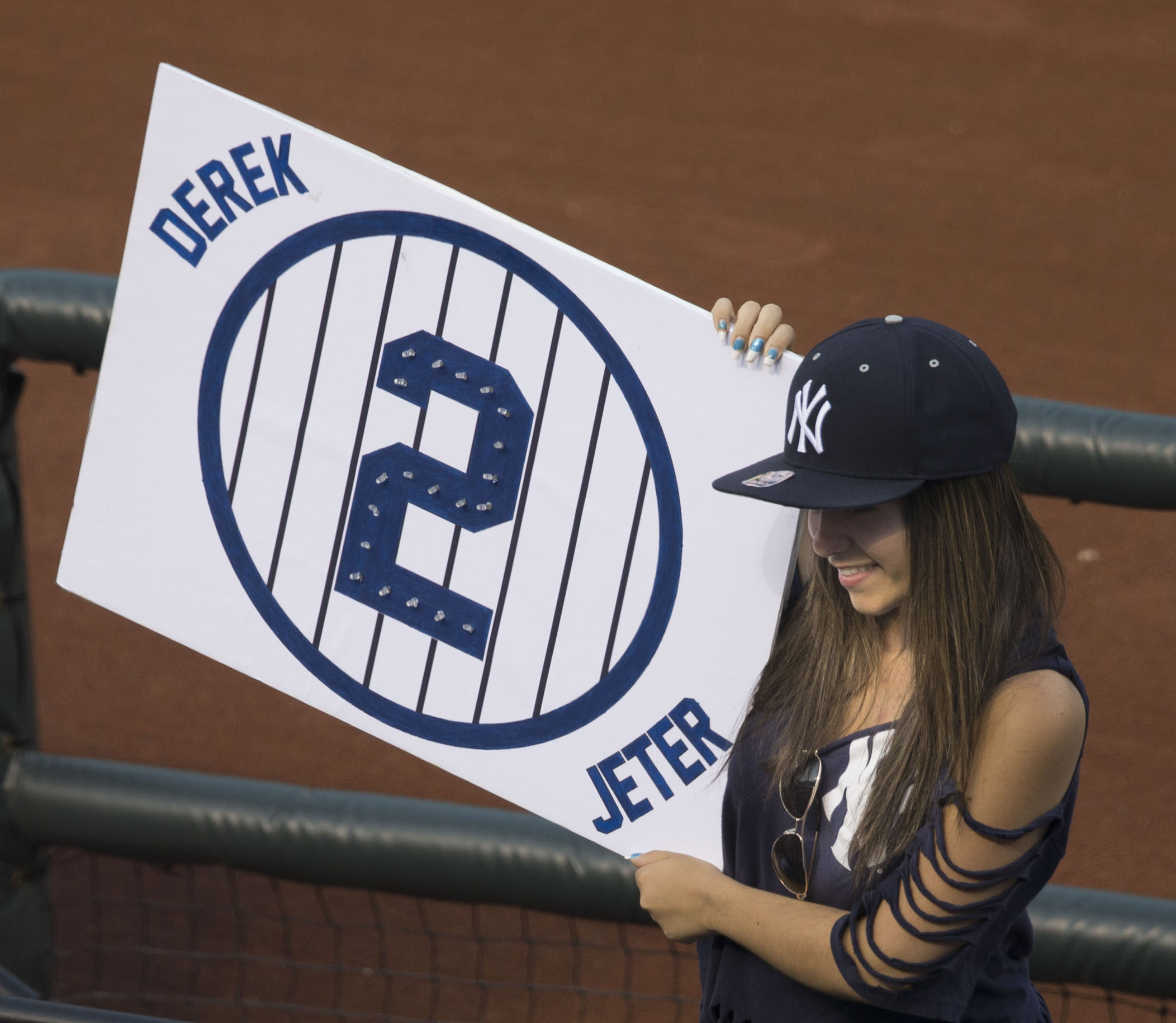 Yankees at Orioles July 13, 2014